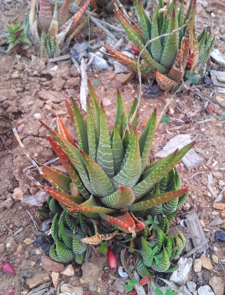 Haworthia fasciata var browniana in cultivation. Locality NW Uitenhage